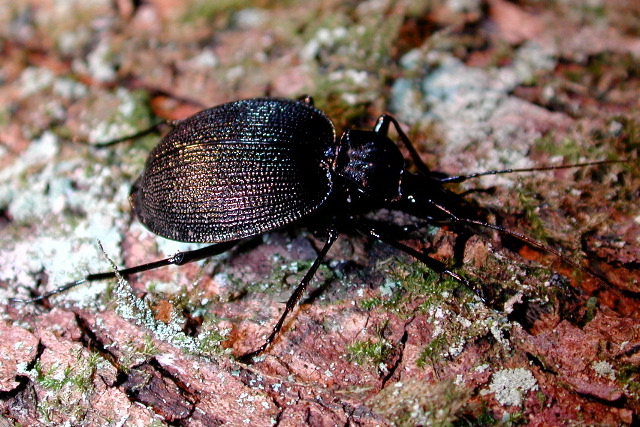 Scaphinotus guyoti from the mountains of western North Carolina and eastern Tennessee.